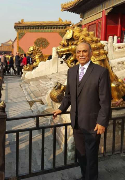 governor of Callao